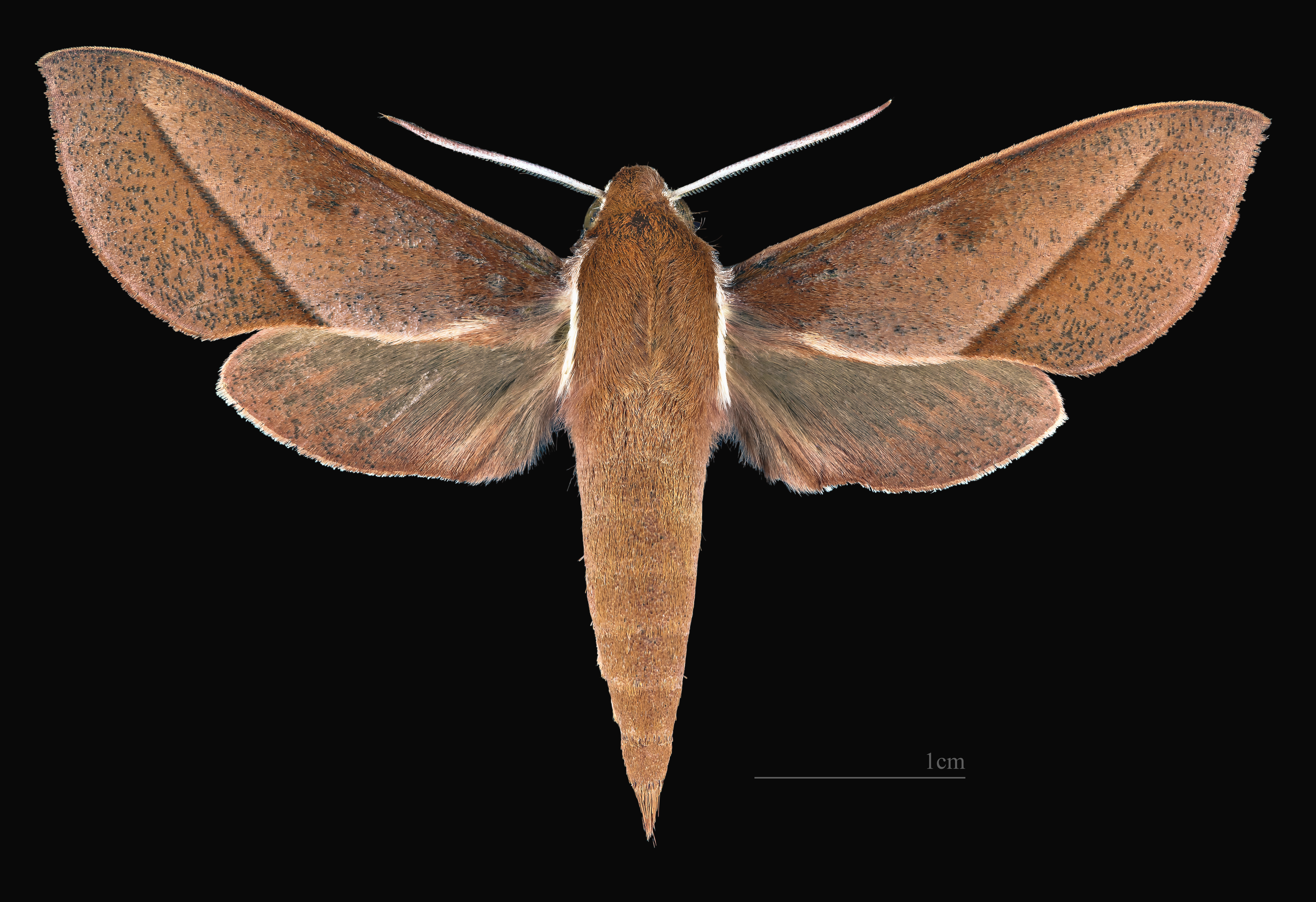 Xylophanes irrorata - Dorsal side Collection of the Mathematician Laurent Schwartz